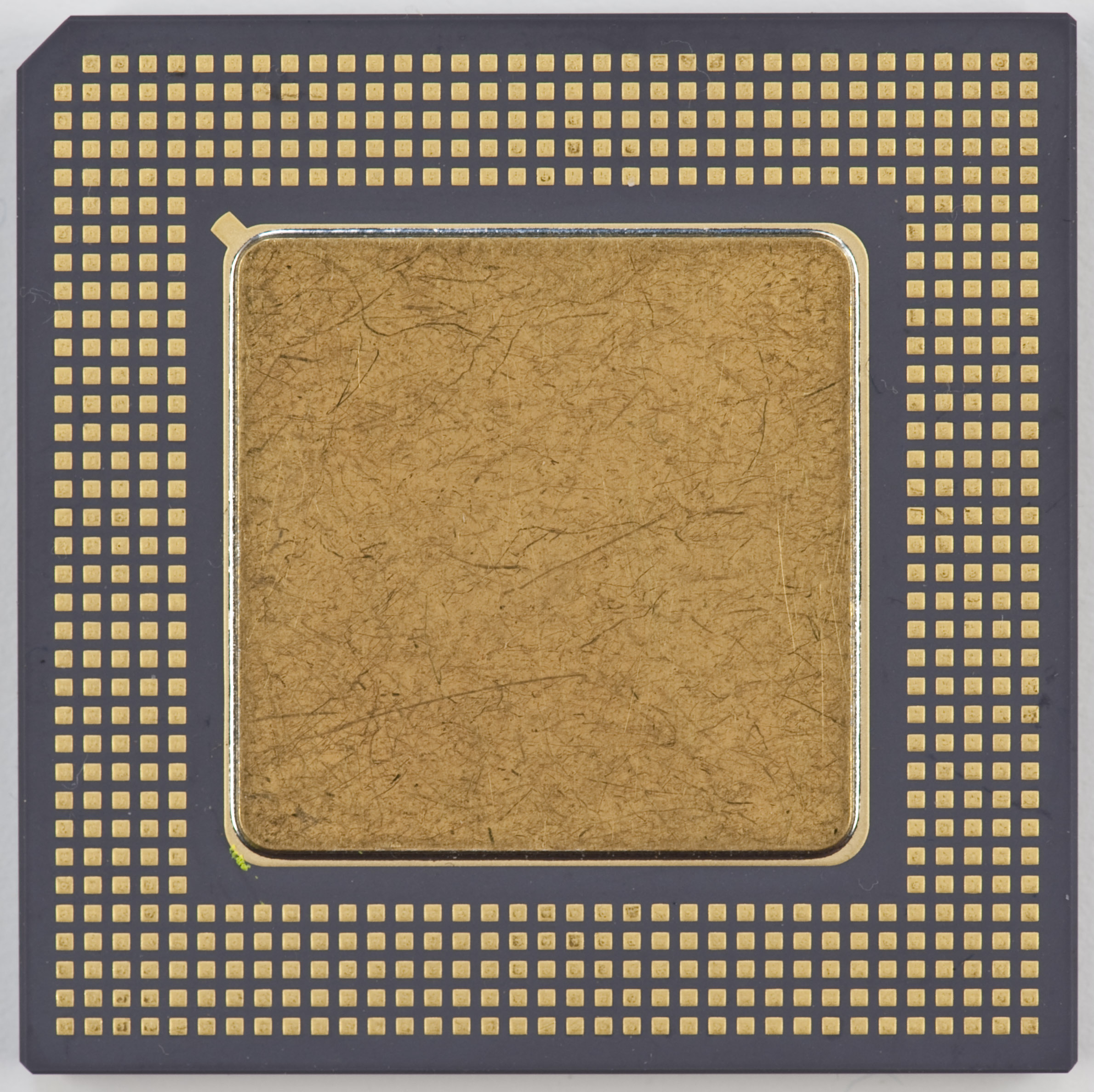 Processor of NEC (back side)